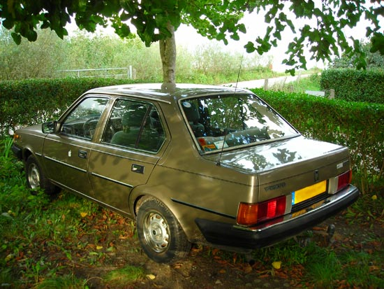 Volvo 360 sedan. Source: authors picture. No copyright issues.